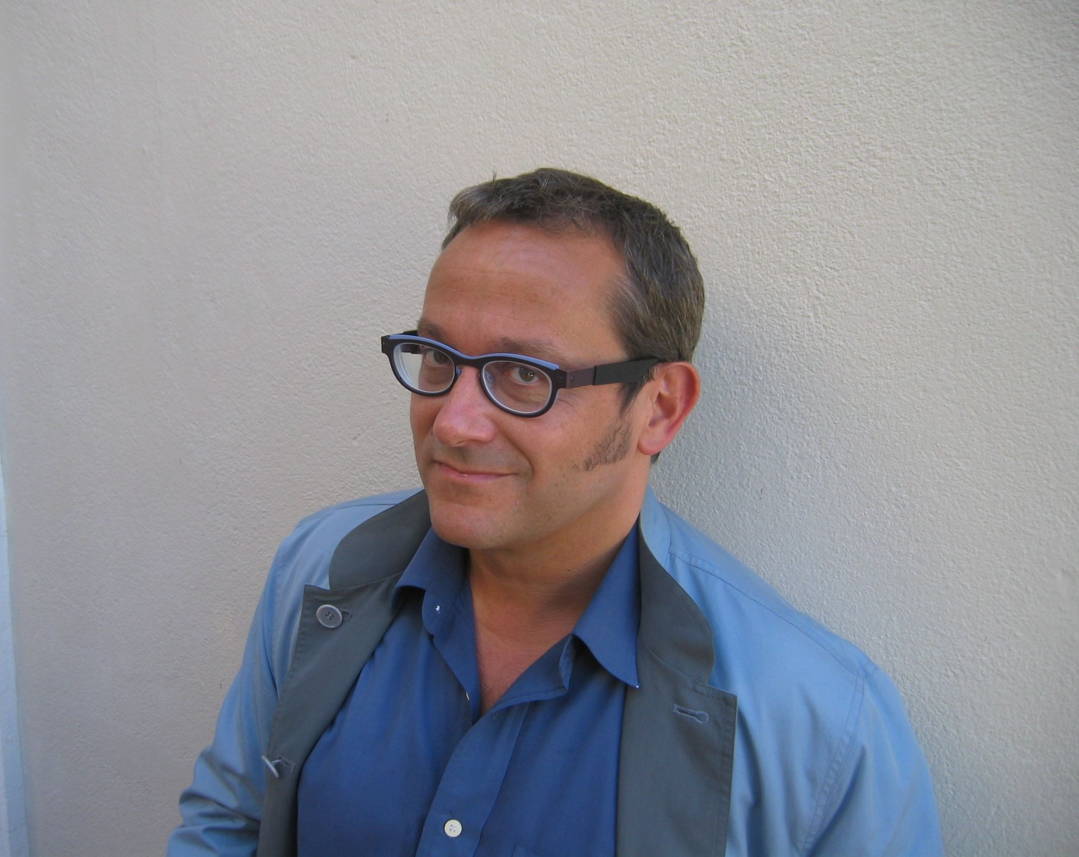 Tom Lanoye - vrij van © - uit: familiearchief